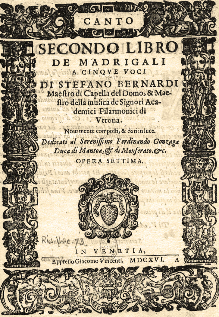 Title page of Secondo libro de madrigali a cincque voci""